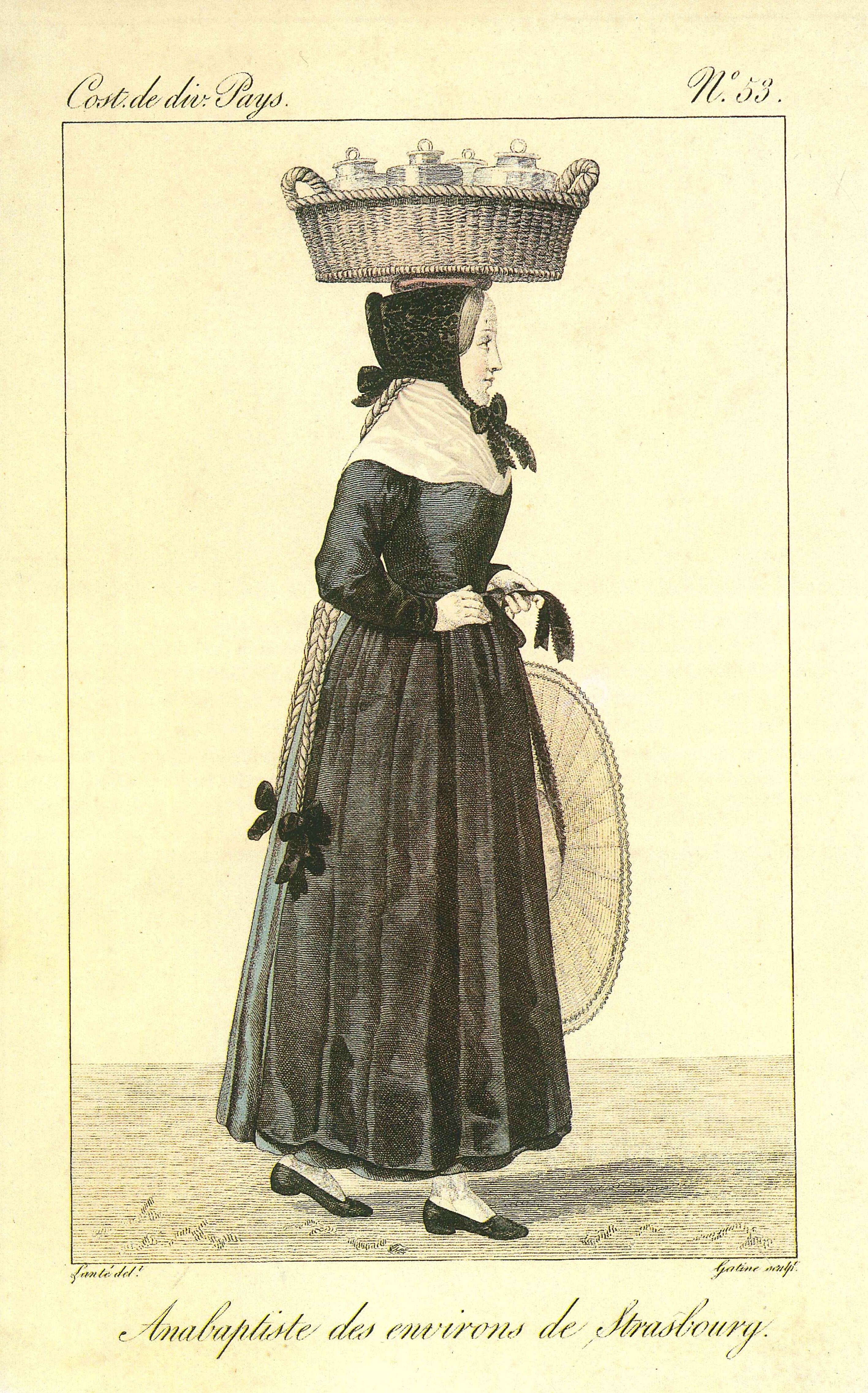 Alsatian Mennonite woman, from the 18th or 19th century. Plate from the collection "Costumes de divers pays" (Clothing of various countries), Lanté et Gatine (1827) - The Alsatian Museum, Strasbourg